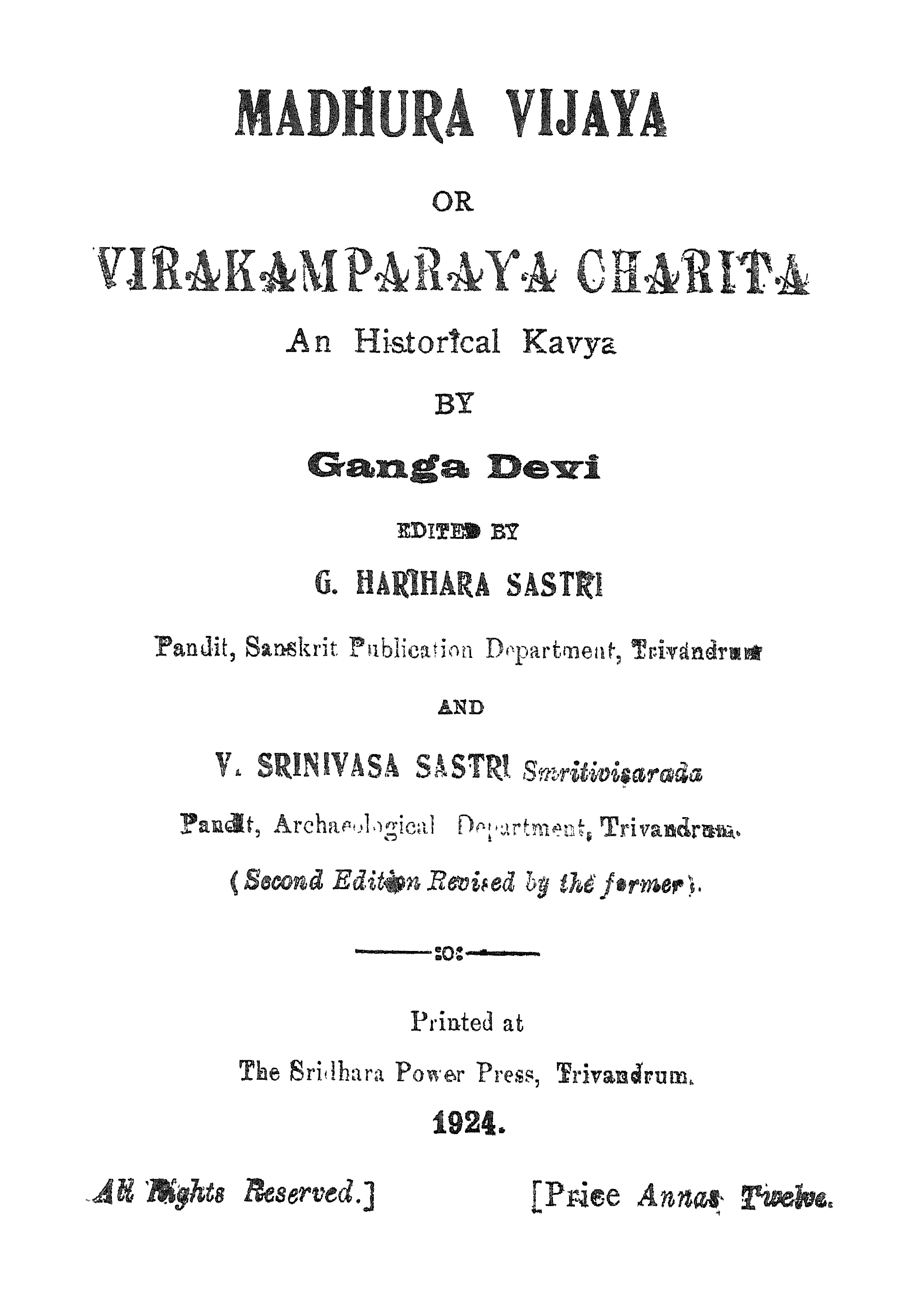 Madura Vijayam 1924 Edition